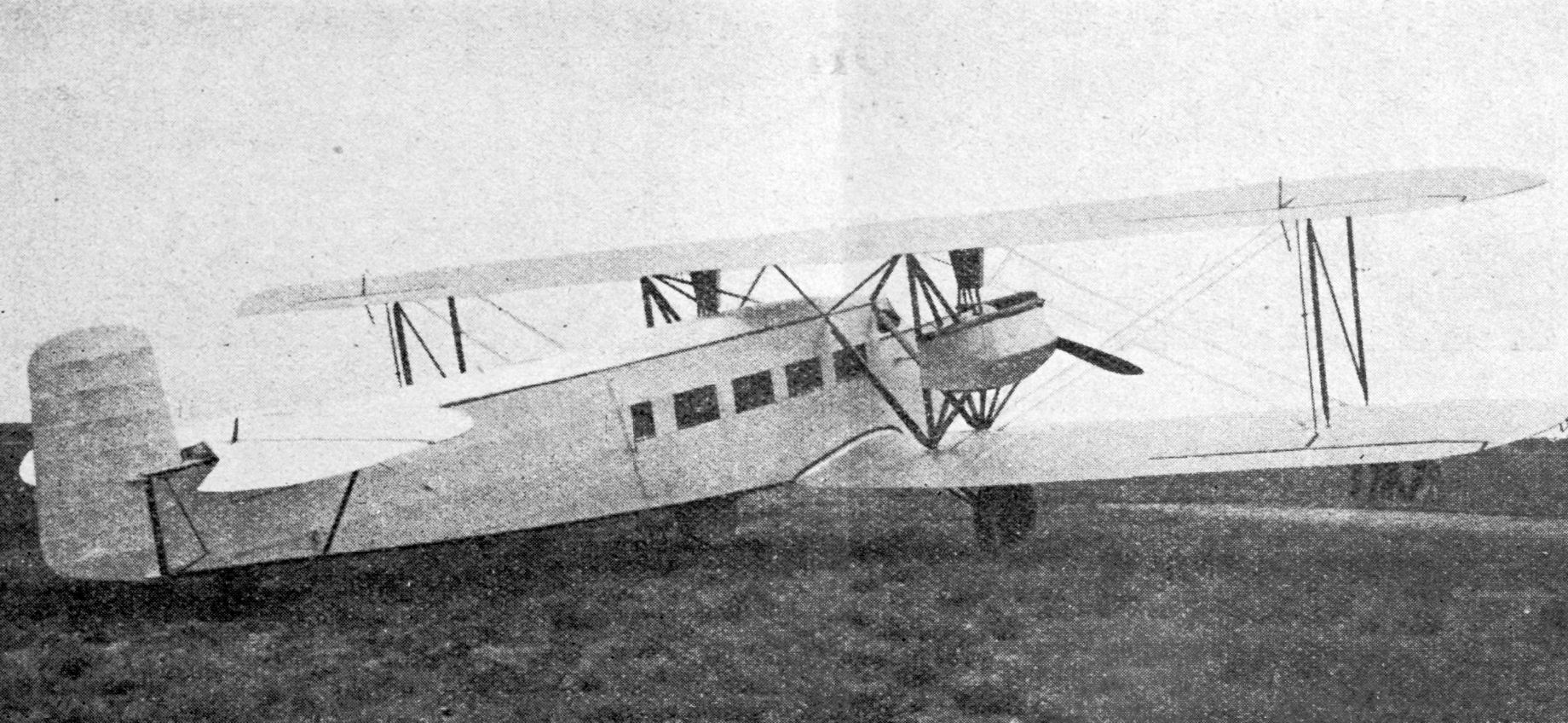 Albatros L 73 photo from L'Air February 15,1927